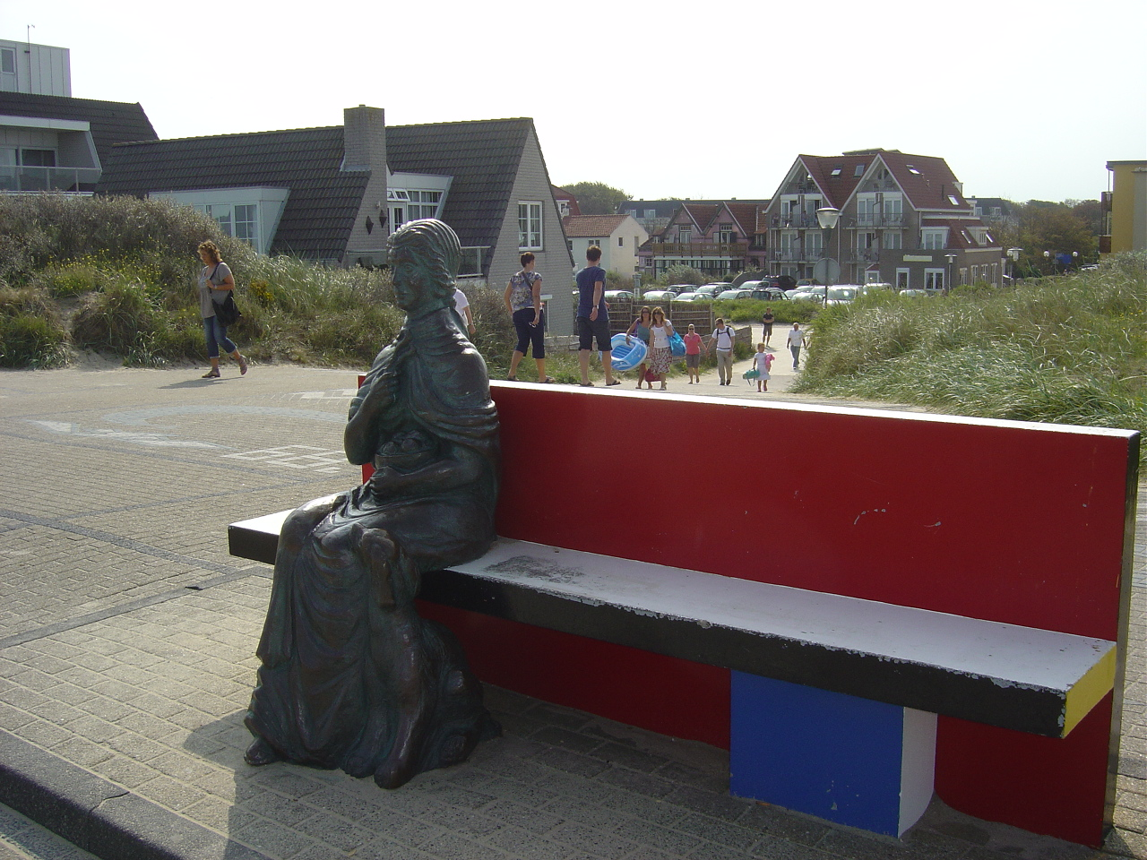 Modern statue of pre-Celtic fertility and mothergoddess Nehalennia, bronze, incorparated in the "Mondriaanbank" by Guido Metsers 1989, located Boulevard van Schagen Domburg